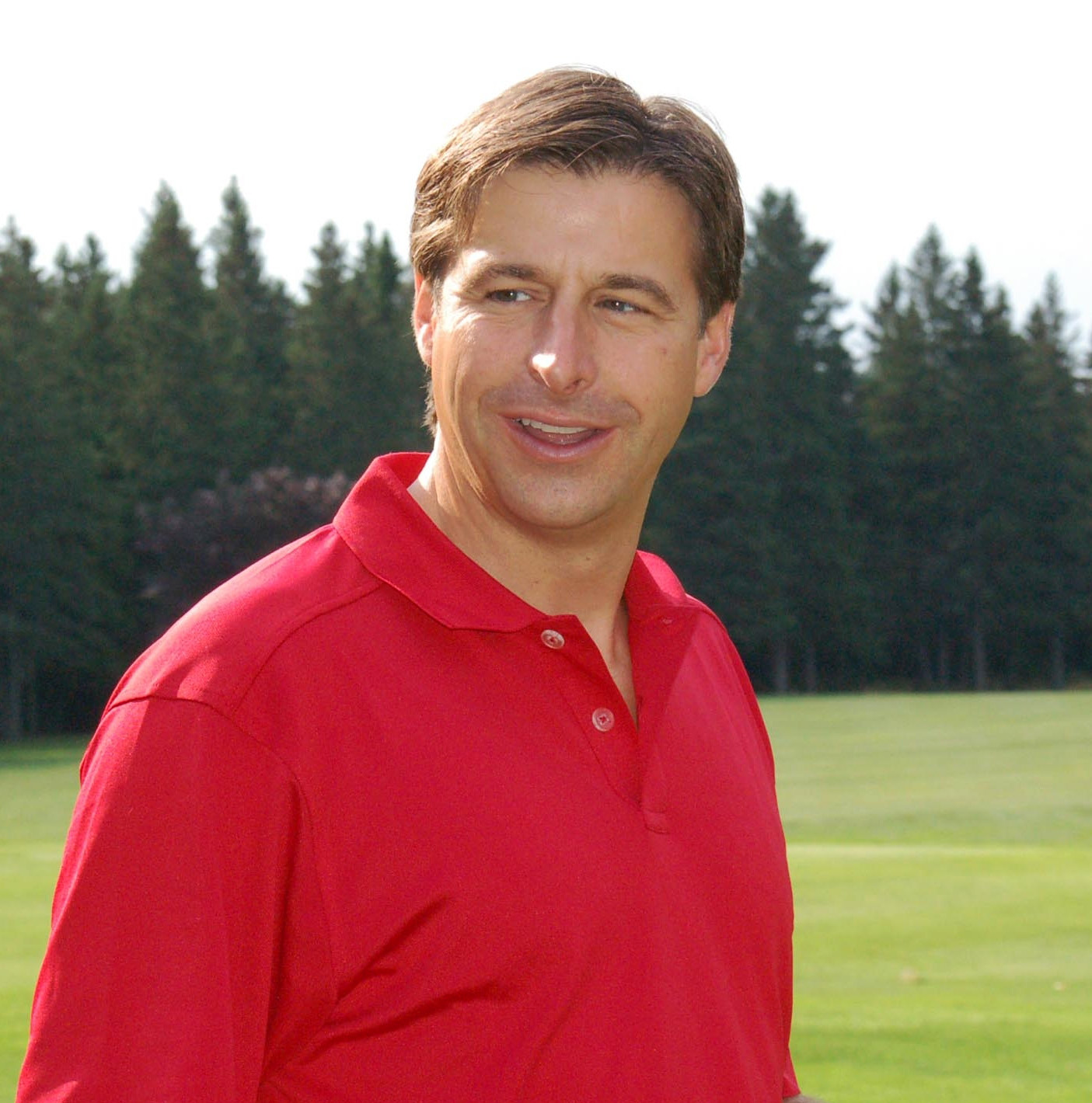 Shawn Graham, premier of New Brunswick, at a golf tournament in 2007.